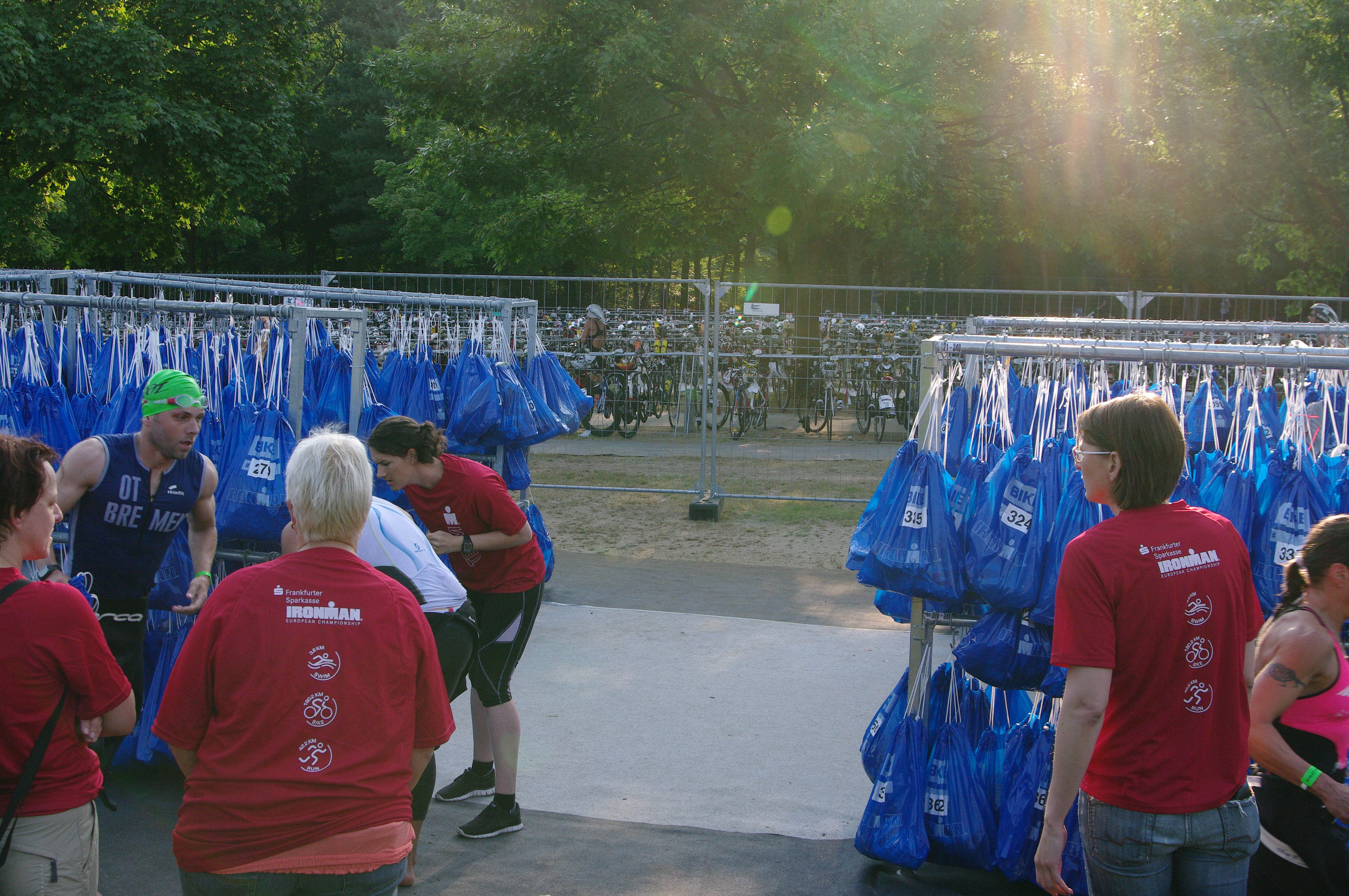 Ironman 2013 Frankfurt